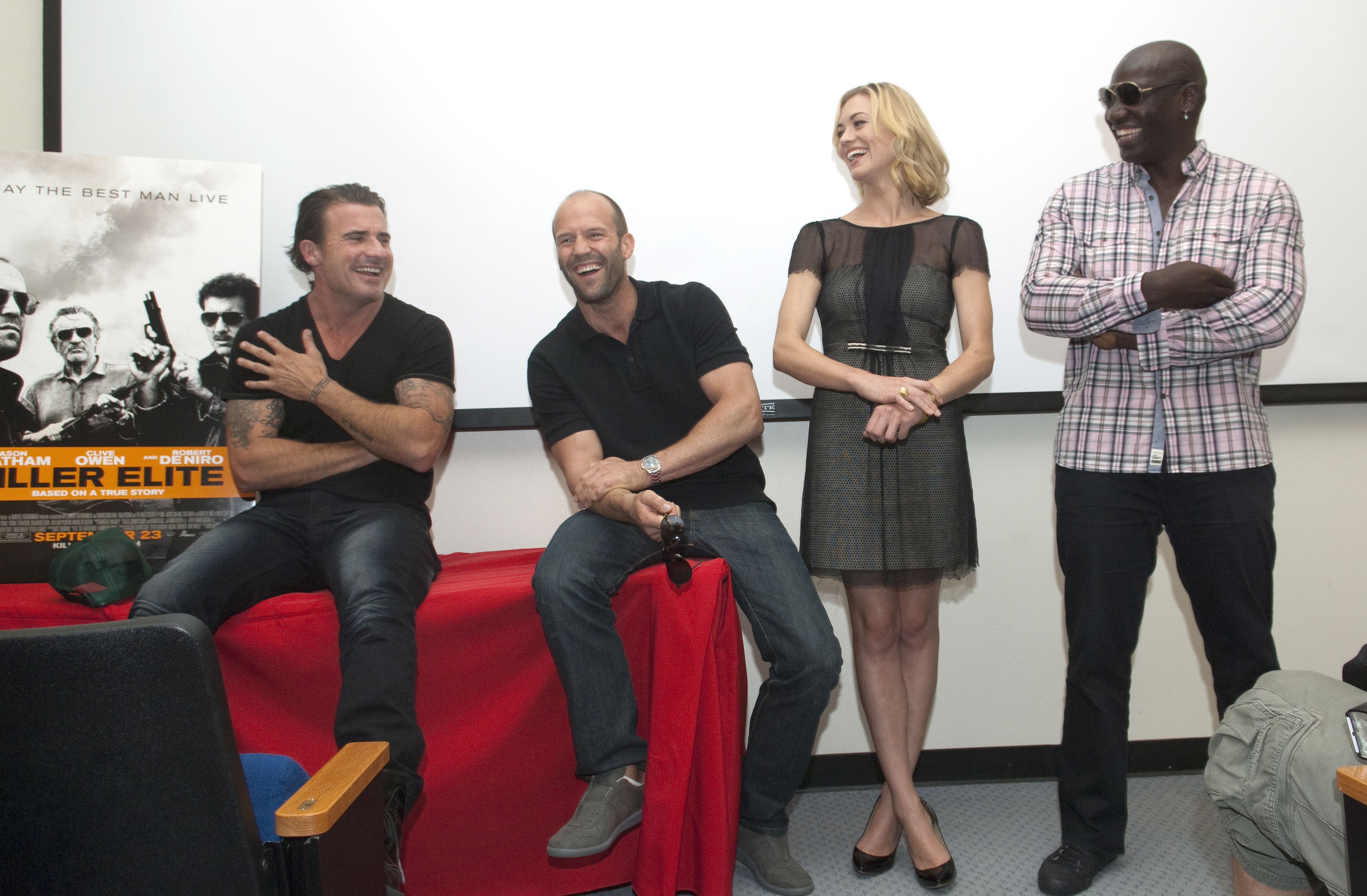 From left: Actors Dominic Purcell, Jason Statham, Yvonne Strahovski and Adewale Akinnuoye-Agbaje, from the film Killer Elite, meet with Edwards Airmen who have been deployed and spouses of the deployed Airmen in the Public Affairs and Multimedia building theater. The actors spent about an hour and a half answering questions and meeting with the families of those deployed and recently deployed services members before heading off to the base theater. (Air Force photo by Rob Densmore)